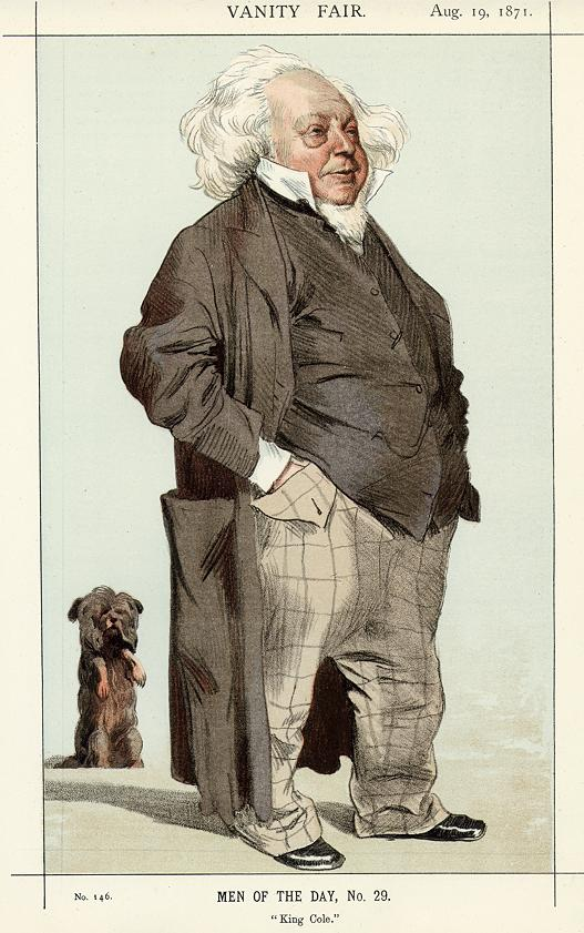 Caricature of Henry Cole (1808-1882). Caption read "King Cole".